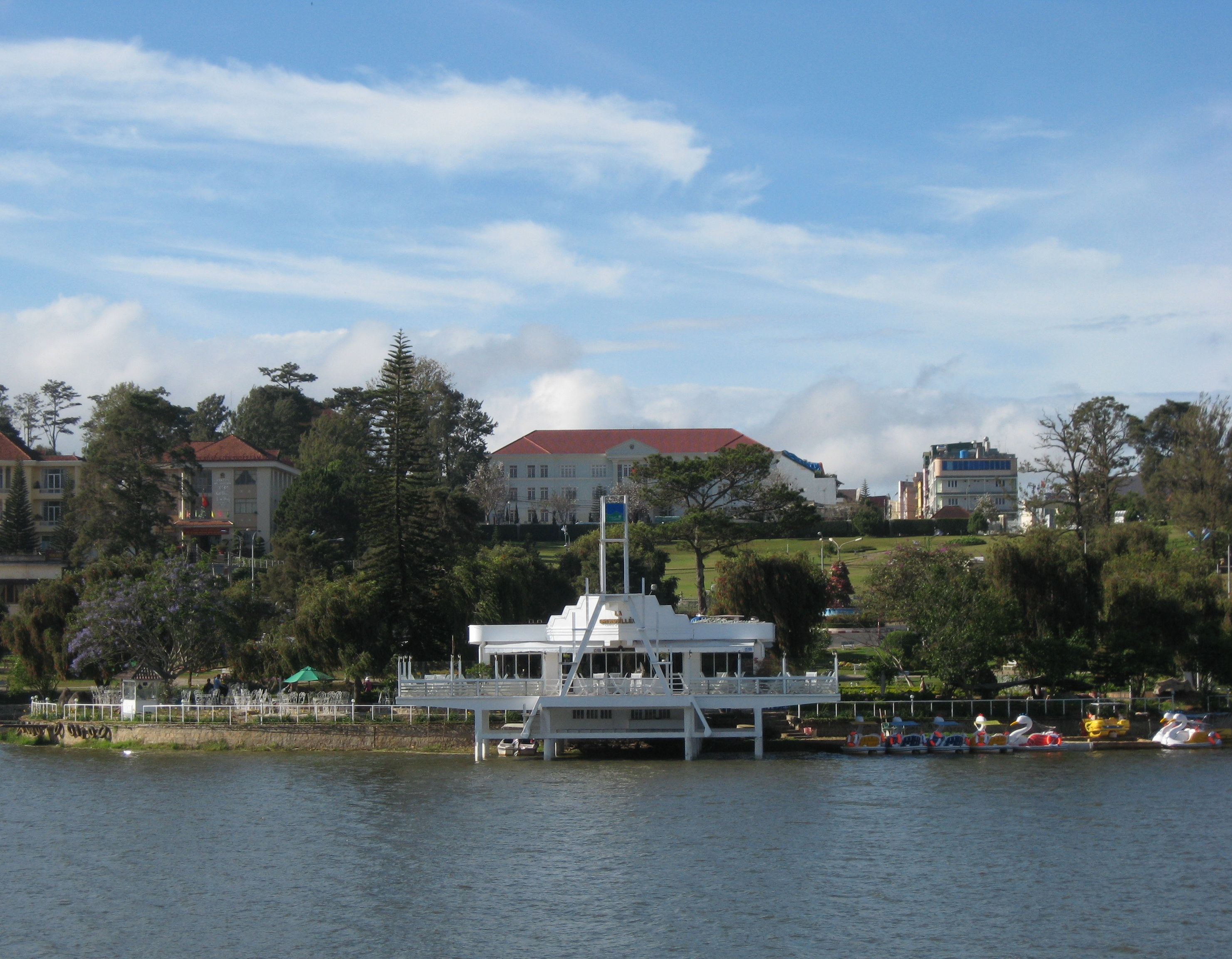 Thuy Ta Restaurant, Da Lat